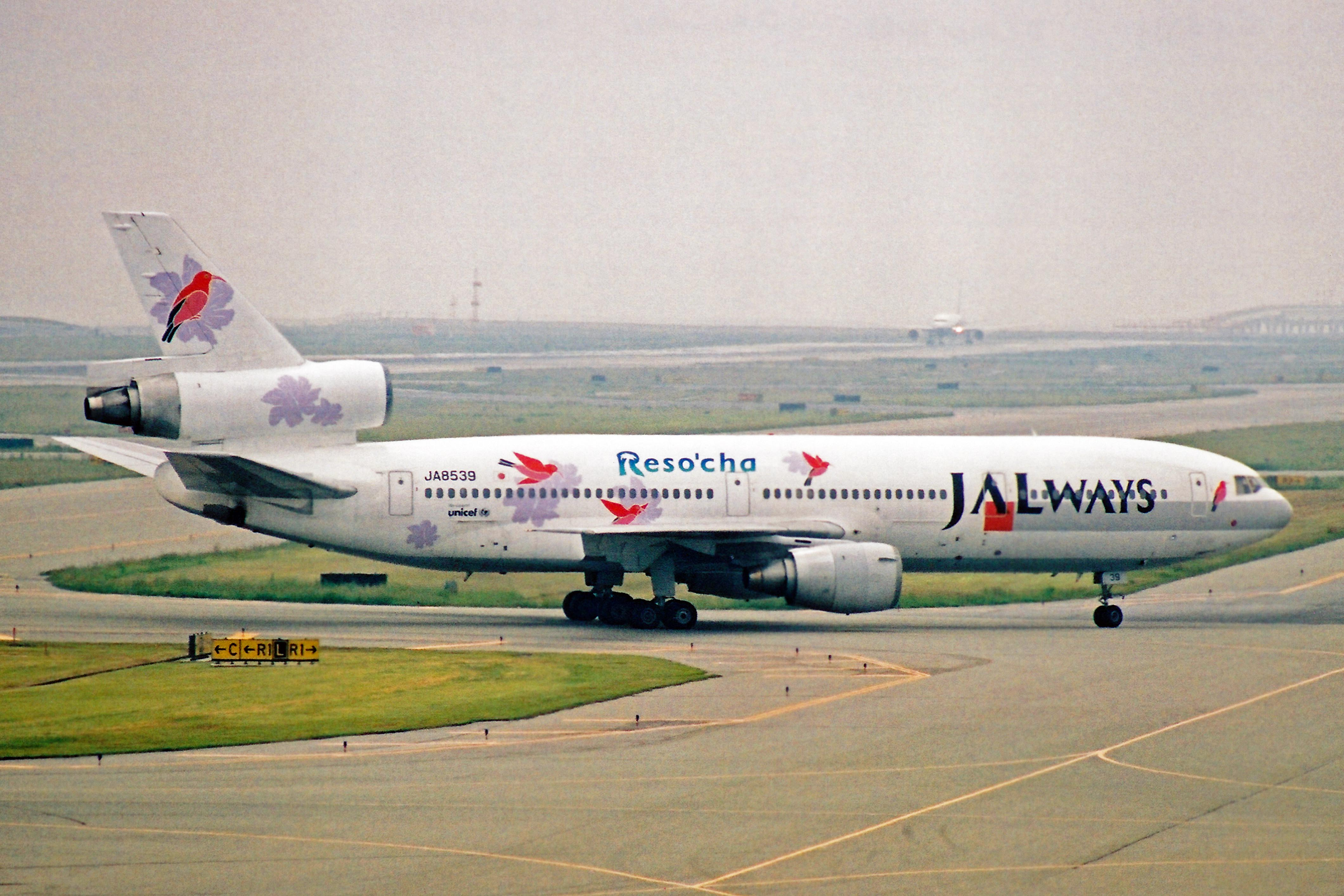 'Reso'cha' logojet, right side.